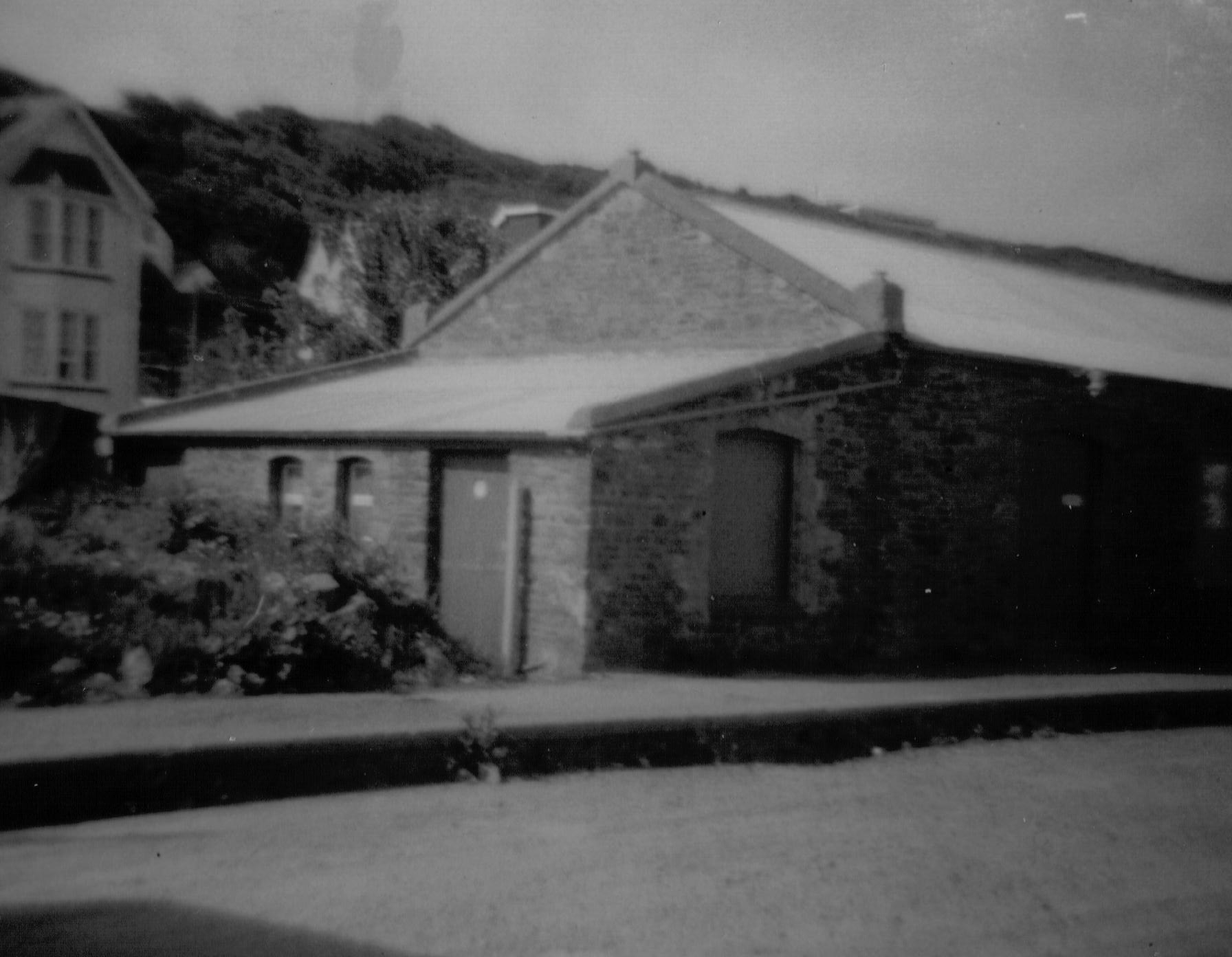 The old concert hall at the old Westward Ho! railway station, North Devon, England.